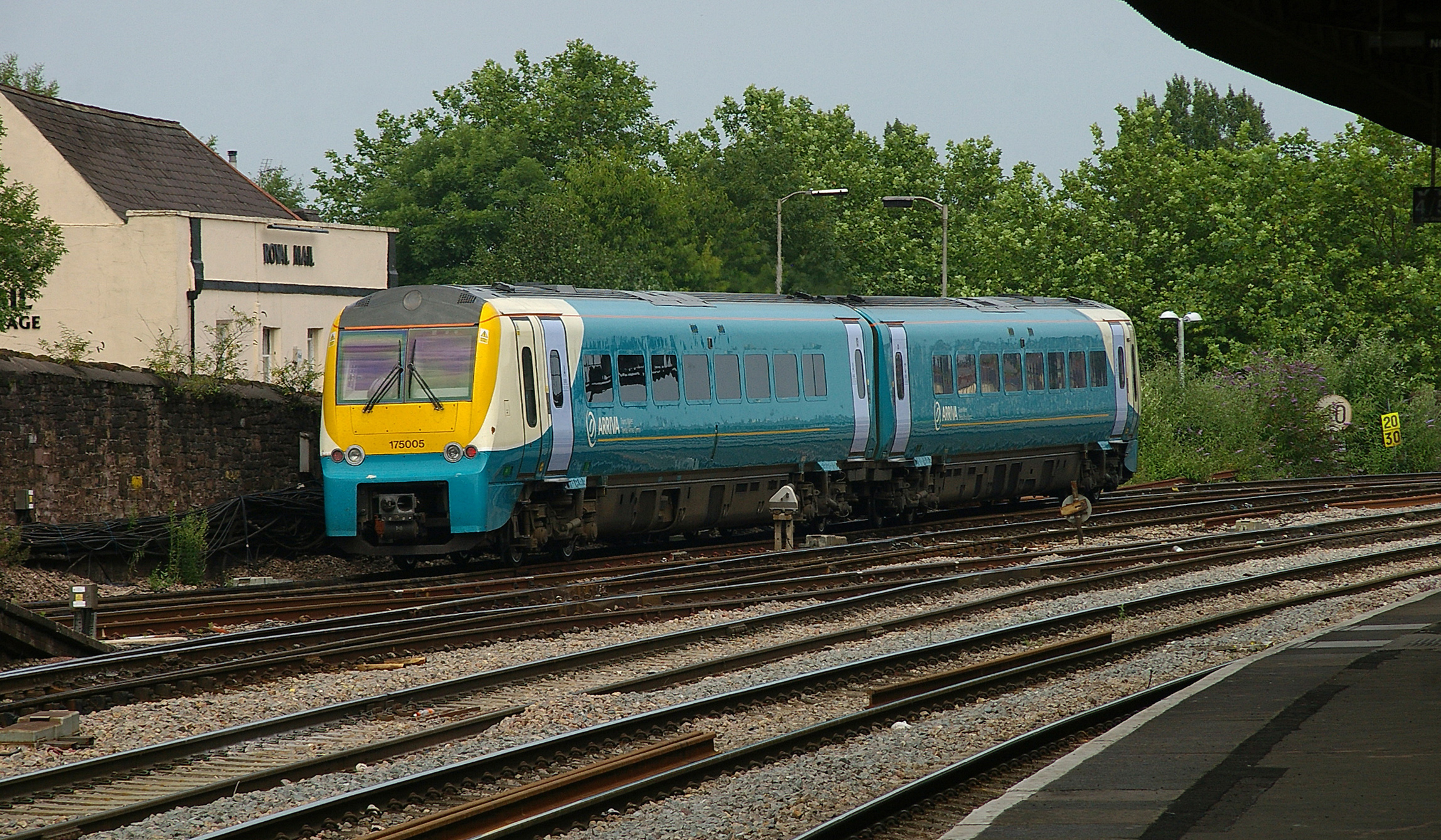 Arriva Trains Wales 175005 leaves Newport railway station headed north along the Welsh Marches Line.